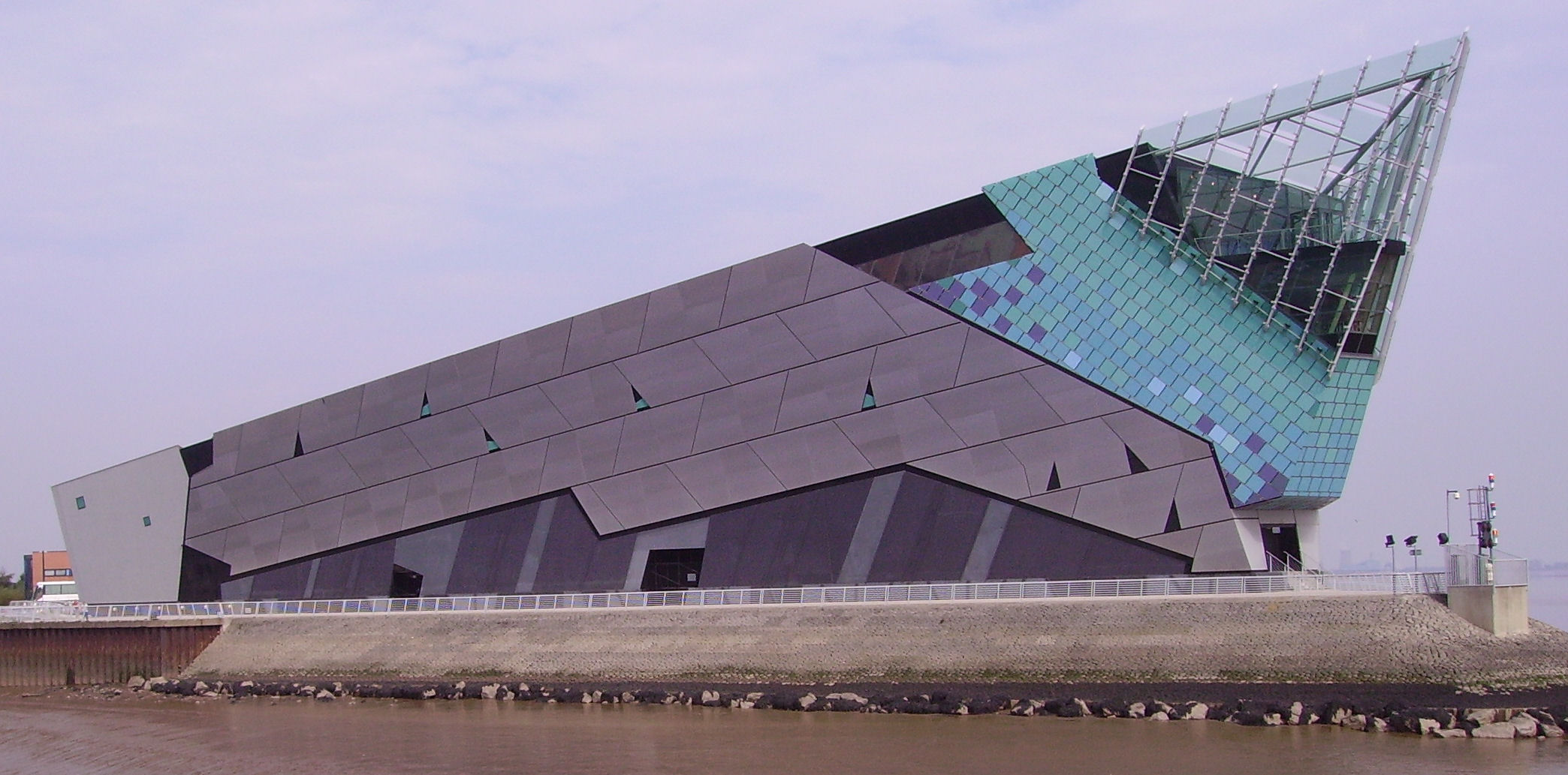 aquarium The Deep in Kingston upon Hull, United Kingdom